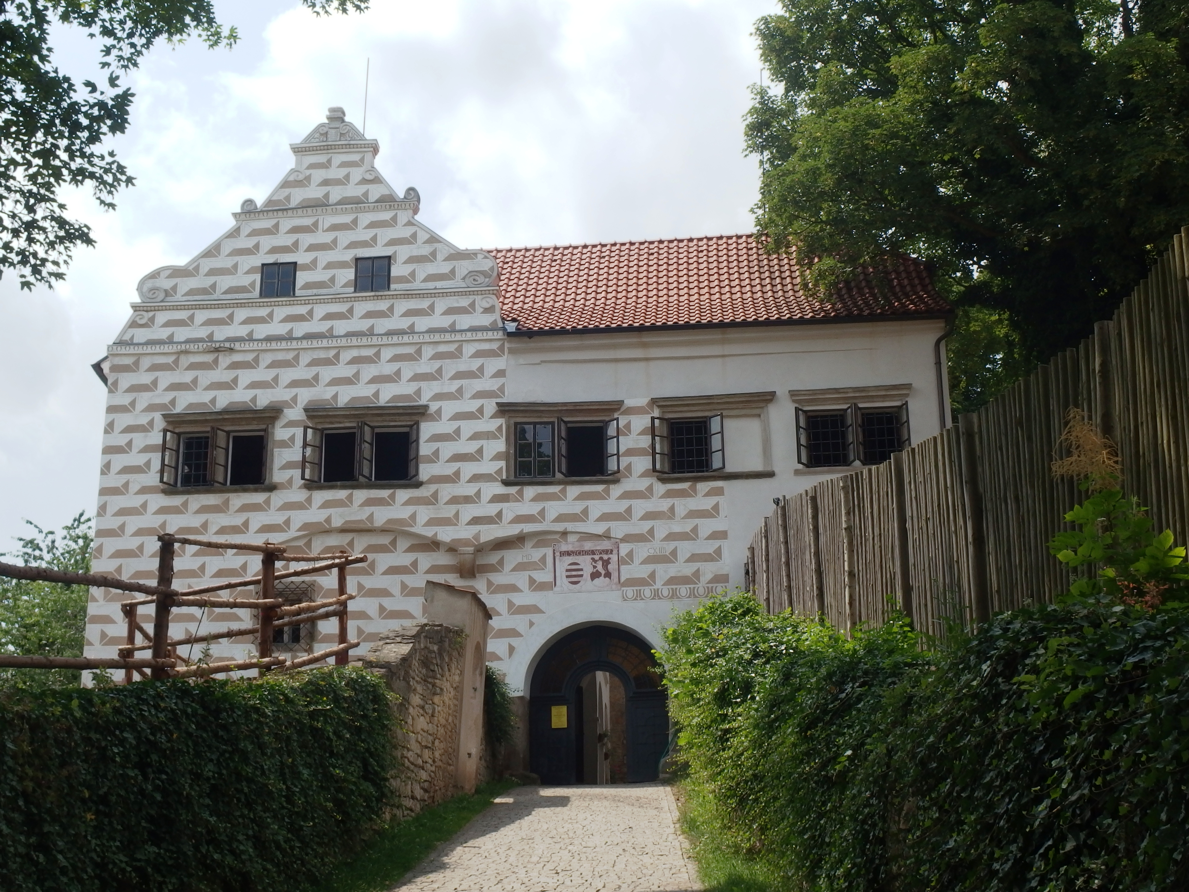 Luže, Chrudim District, Czech Republic. Košumberk Castle